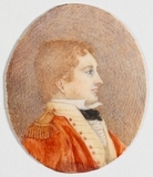 portrait of Lachlan Macalister